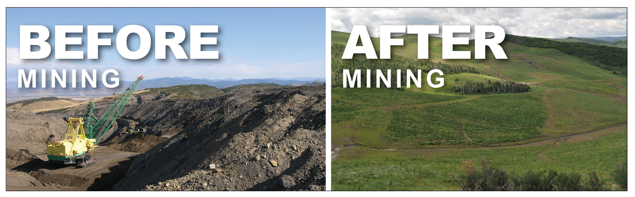 Land reclamation - restored land at the Seneca Yoast coal mine.